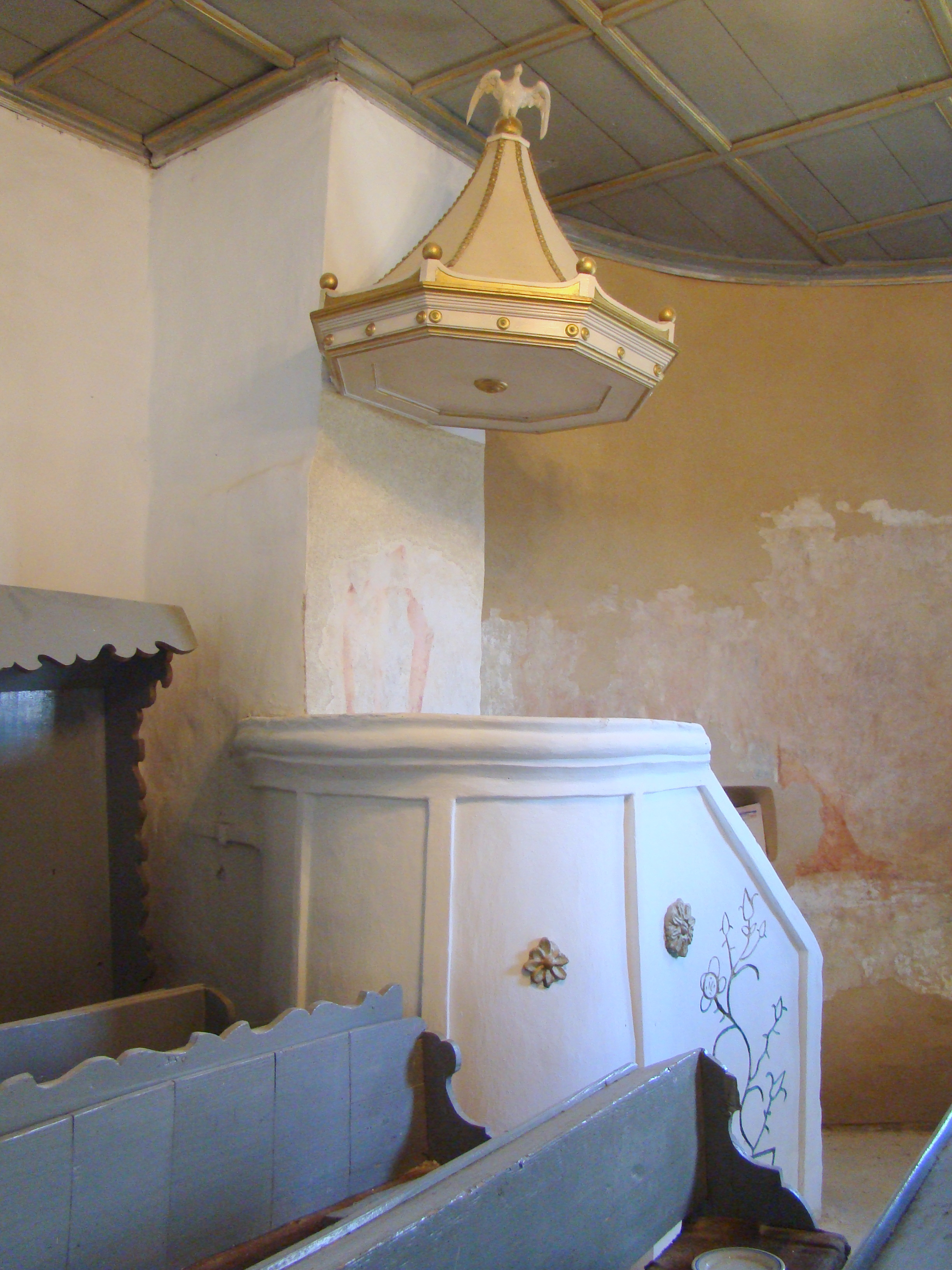 Reformed church in Hărțău, Mureș county, Romania